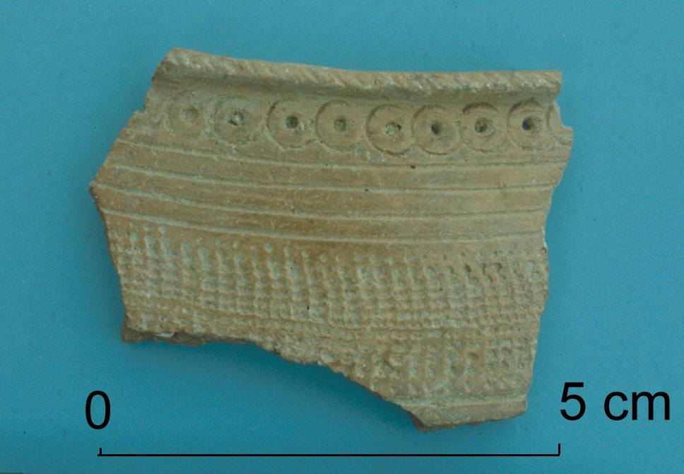 A Sherd of Iron Age pottery from Khor Rori in Oman. Photo by P. Yule